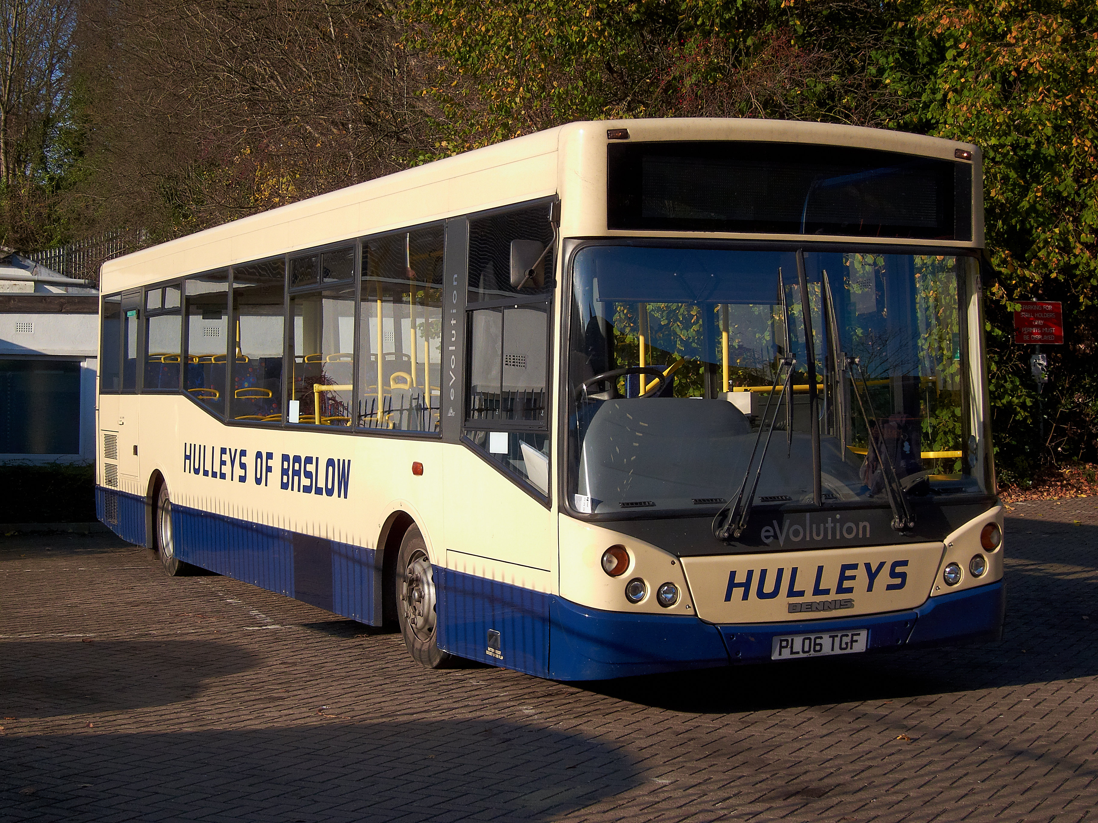 Hulleys of Baslow 18 (PL06 TGF), a Dennis Dart SLF/MCV Evolution at Matlock Bakewell Road bus station.